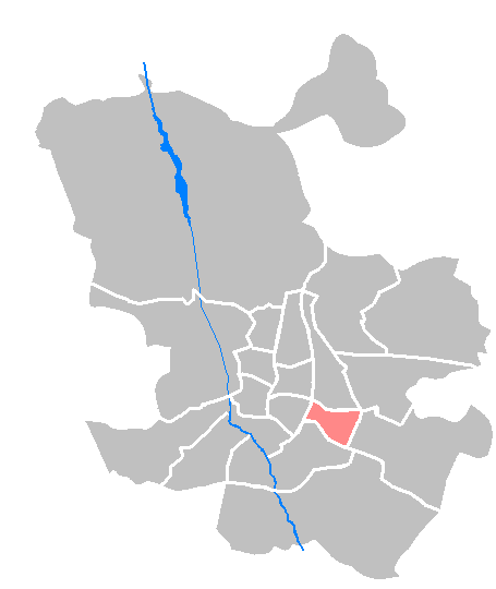 Locator maps of districts in Madrid: Maps - ES - Madrid - Moratalaz.PNG